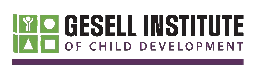 Organization logo